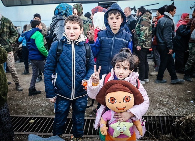 Arrival of residents of Al-Fu'ah and Kfrya to Aleppo - December 2016